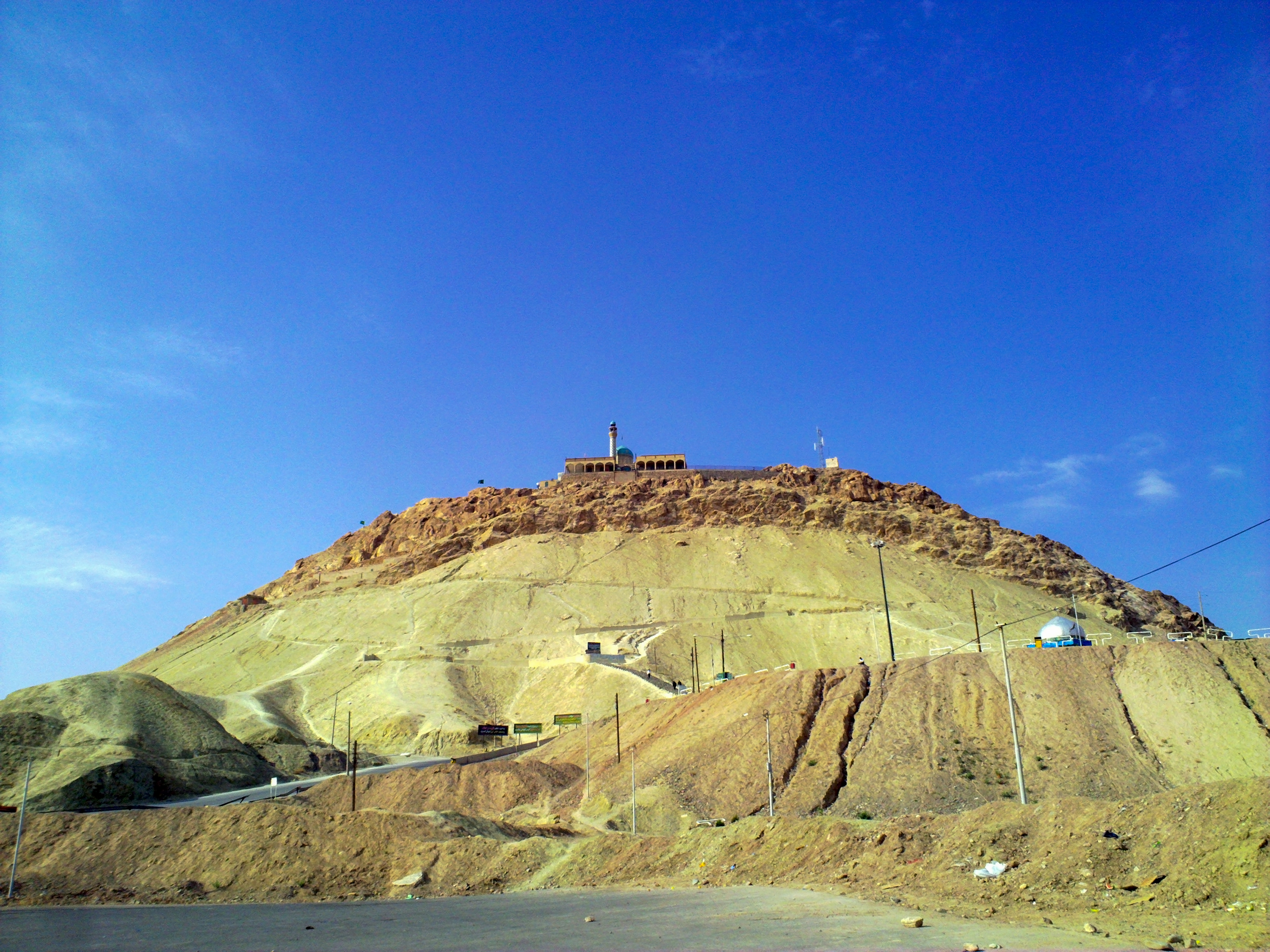 Qom also spelled as Ghom, is the eighth largest city in Iran. It lies 125 kilometres (78 mi) by road southwest of Tehran and is the capital of Qom Province. At the 2011 census its population was 1,074,036 (957,496 at the 2006 census, in 241,827 families), comprising 545,704 men and 528,332 women. It is situated on the banks of the Qom River. Qom is considered holy by Shiʿa Islam, as it is the site of the shrine of Fatema Mæ'sume, sister of Imam `Ali ibn Musa Rida (Persian Imam Reza, 789–816 AD). The city is the largest center for Shiʿa scholarship in the world, and is a significant destination of pilgrimage. Qom is famous for a brittle toffee called “Sohan” (Persian:سوهان), considered a souvenir of the city and sold by 2,000 to 2,500 “Sohan” shops.